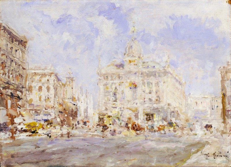 This work entered the Collection together with Morning on the Tiber and The Capitol with the acquisition of the Istituto Bancario Italiano (IBI) Collection in 1991. As a result of the major urban renewal projects launched in Milan in the wake of Italian Unification Piazza Cordusio (formerly Piazza Ellitica), located on the main thoroughfare linking Piazza del Duomo to Castello Sforzesco, became the city’s financial hub. During the fourth and fifth decade of the 20th century Mantovani treated this subject repeatedly, using diverse formats and supports, and producing many variants on the same view of the wide square bordered by the monumental head offices of leading banks. With a few rapid touches of colour – ochre, yellows and reds – the artist conveys the liveliness of the milling crowd in the square, engaged in various activities outside the Assicurazioni Generali headquarters, designed by the architect Luca Beltrami in 1901. The imposing mass of the building dominates the view, allowing us only a glimpse of the sketchily rendered Cathedral. Datable to the second half of the 1940s, the work was executed with a fluid technique arrived at through the intense and consistent pictorial research undertaken by the artist since his debut, but which seemed outmoded in this period. The ever-more rapid and chaotic brushstrokes cause the forms and the background to merge in an evanescent, hazy image. The artist’s intense activity as a watercolourist – documented by his participation in the exhibitions organised by the Associazione degli Acquarellisti Lombardi, headed by his friend Paolo Sala – had helped him to perfect the swift, light touch of his maturity. In the last decade of his career, which ended with his death in 1957, Mantovani treated the same subjects continually. These were mainly well-known, stereotyped views of Milan and Venice, including Ripa Ticinese in the Collection.